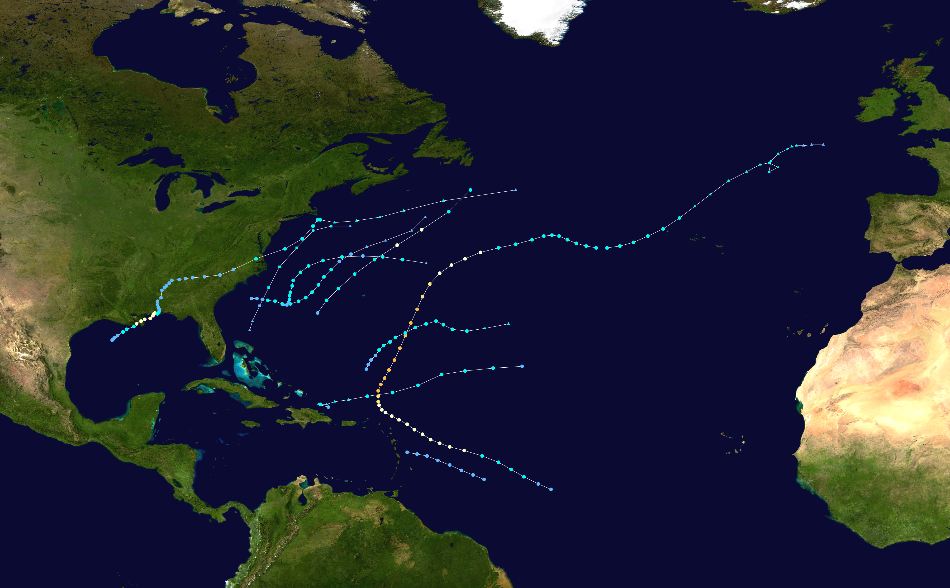 This map shows the tracks of all tropical cyclones in the 1997 Atlantic hurricane season. The points show the location of each storm at 6-hour intervals. The colour represents the storm's maximum sustained wind speeds as classified in the Saffir-Simpson Hurricane Scale (see below), and the shape of the data points represent the type of the storm. Saffir–Simpson scale Tropical depression≤38 mph≤62 km/h Category 3111–129 mph178–208 km/h Tropical storm39–73 mph63–118 km/h Category 4130–156 mph209–251 km/h Category 174–95 mph119–153 km/h Category 5≥157 mph≥252 km/h Category 296–110 mph154–177 km/h Unknown Storm type Tropical cyclone Subtropical cyclone Extratropical cyclone / Remnant low / Tropical disturbance / Monsoon depression